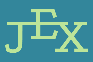 JEX - Journal EXIT-Deutschland